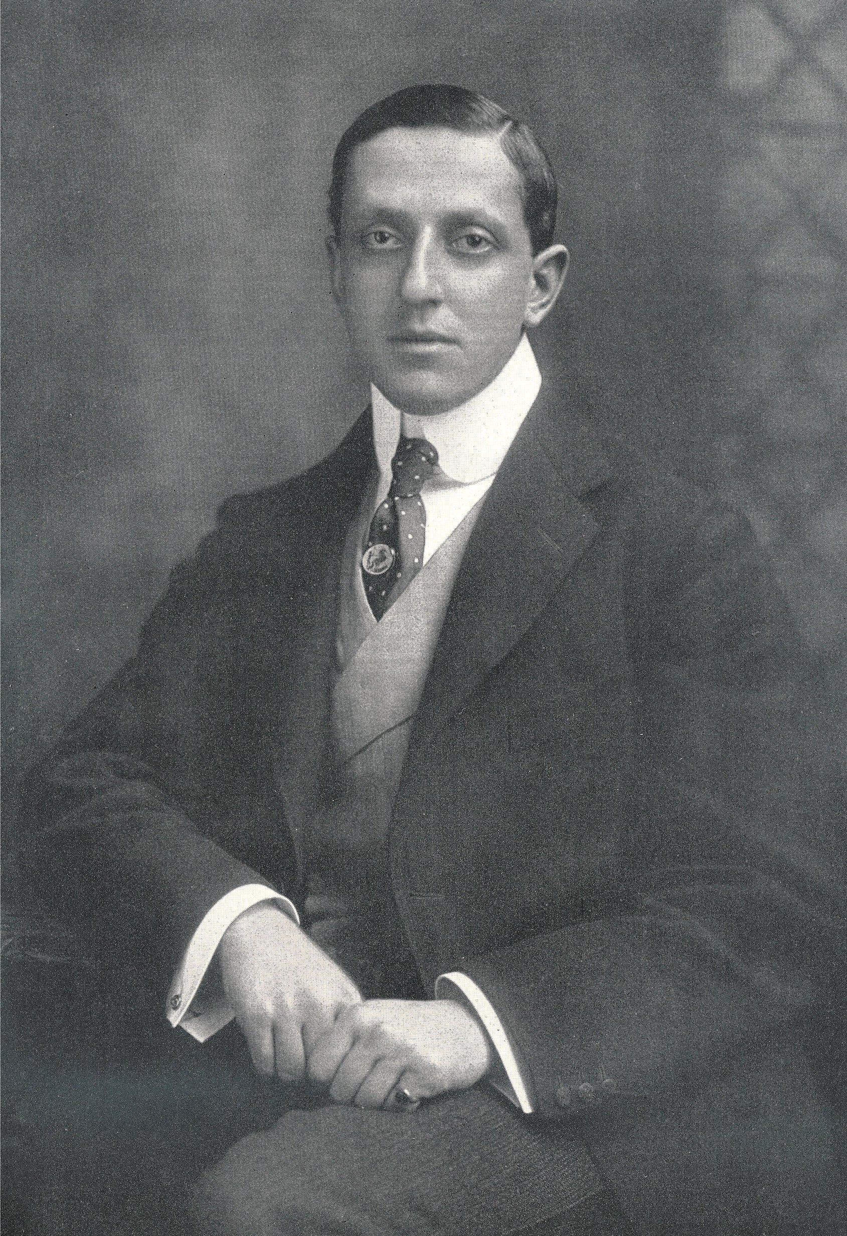 Alfred Walter von Heymel